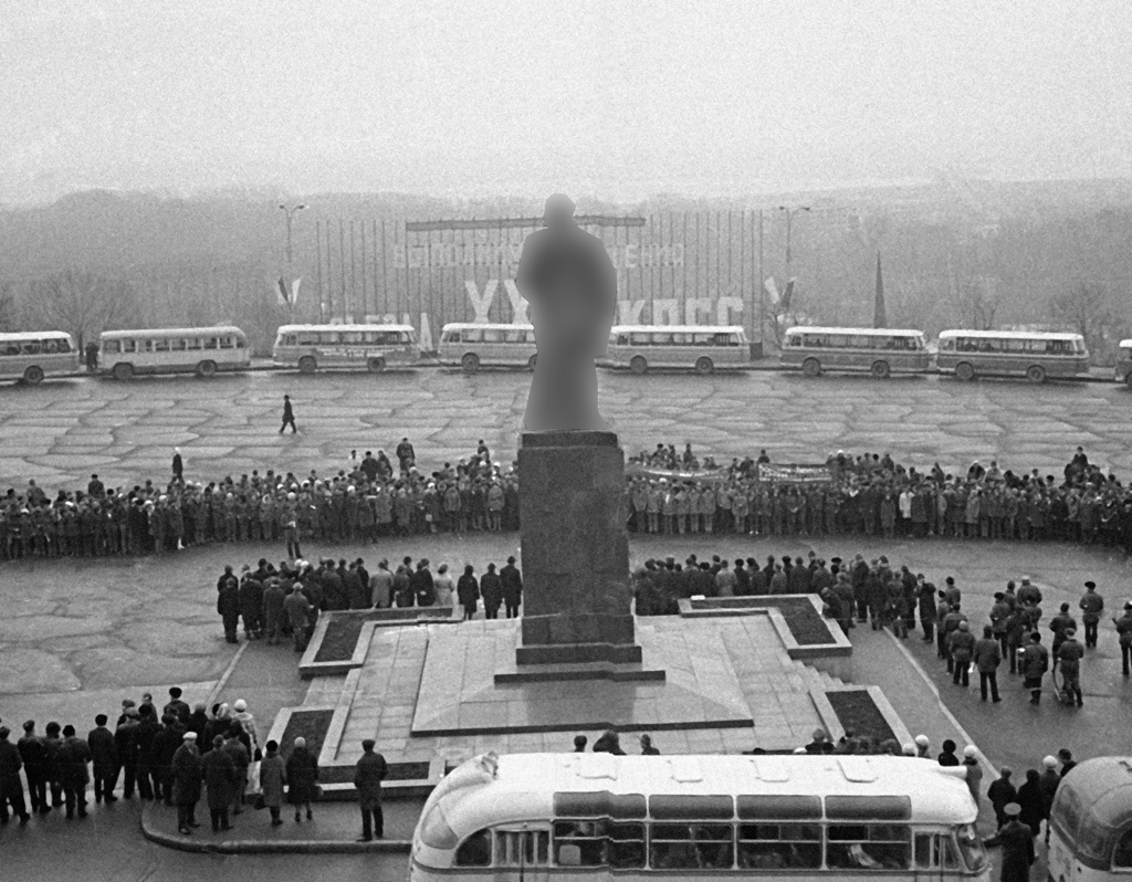 “YCL'ers arrival in Lipetsk”. YCL'ers arrive in Lipetsk for the Novolipetsky Steel Works project.